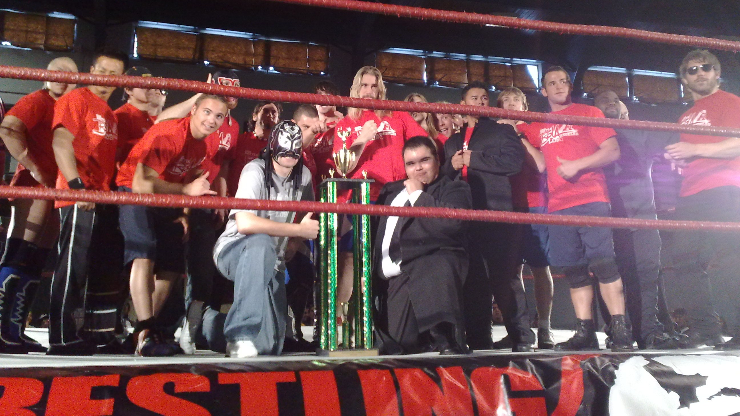 The 2008 Battle of Los Angeles participants at Pro Wrestling Guerrilla's BOLA 2008 Night 1 show on November 1, 2008. Participants visible in the photo include Nick Jackson, Chris Hero, Roderick Strong, Joey Ryan, Scott Lost, El Generico, Masato Yoshino, Austin Aries, Kenny Omega, Davey Richards and Bryan Danielson.